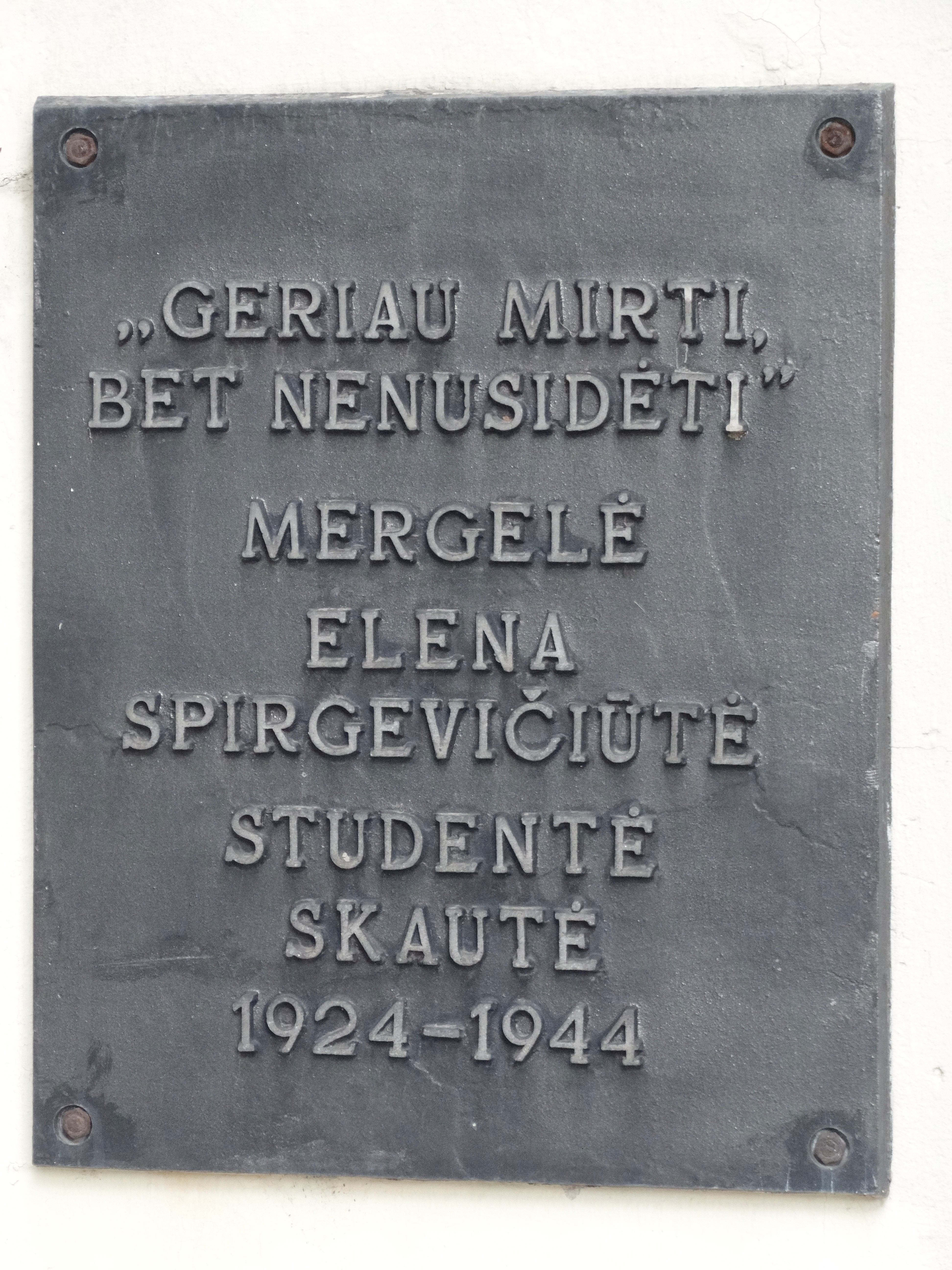 In memory of martyr Elena Spirgevičiūtė, by Church of St. Anthony of Padua, Kaunas, Lithuania